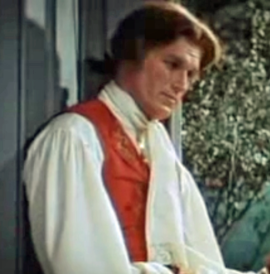 Ken Howard in trailer for "1776" (1972)